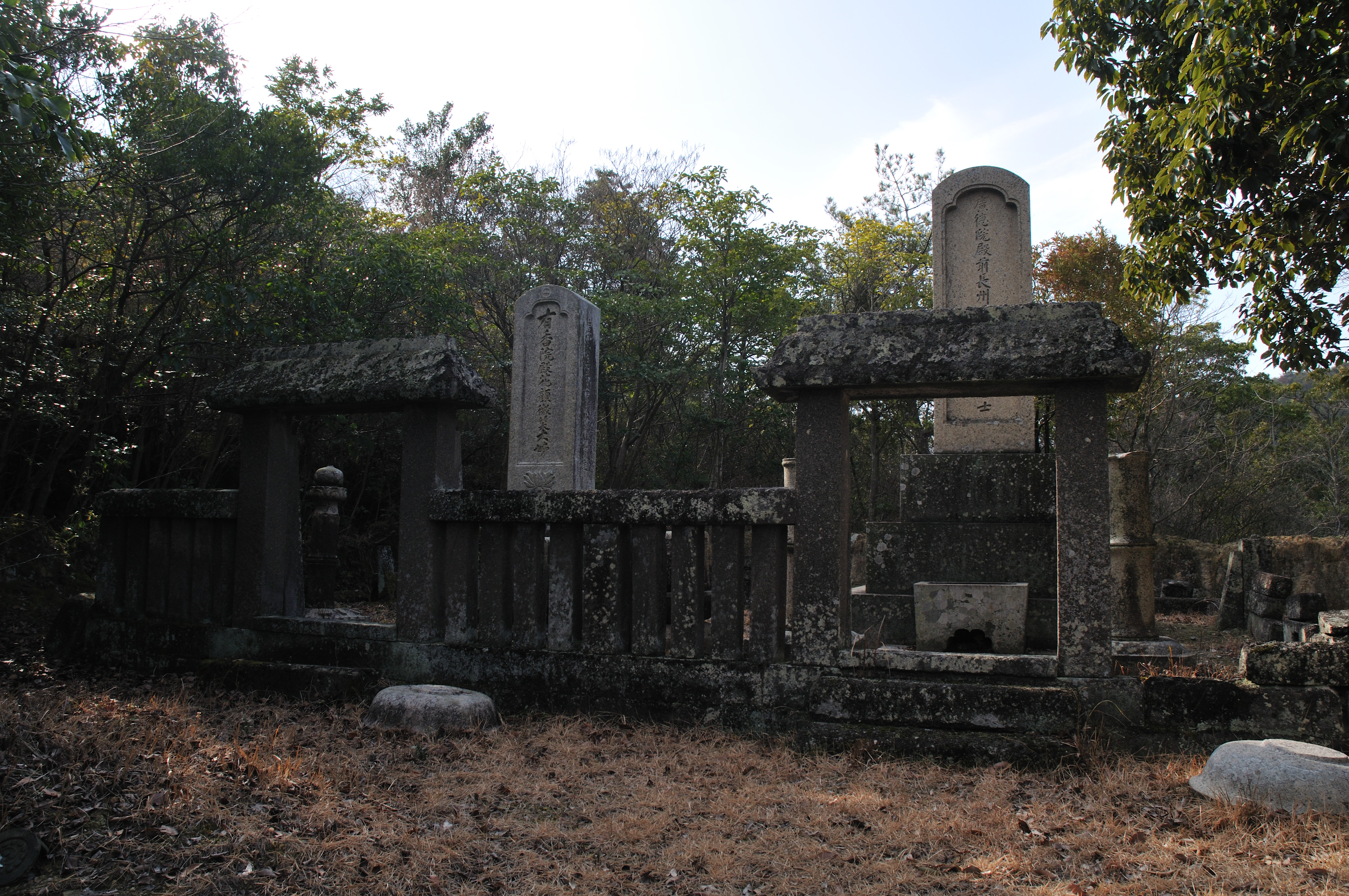 graves of Igi Tadanao(12th family head) and his wife